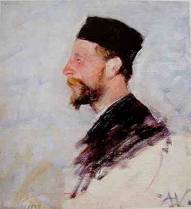 Swedish painter, died in 1936